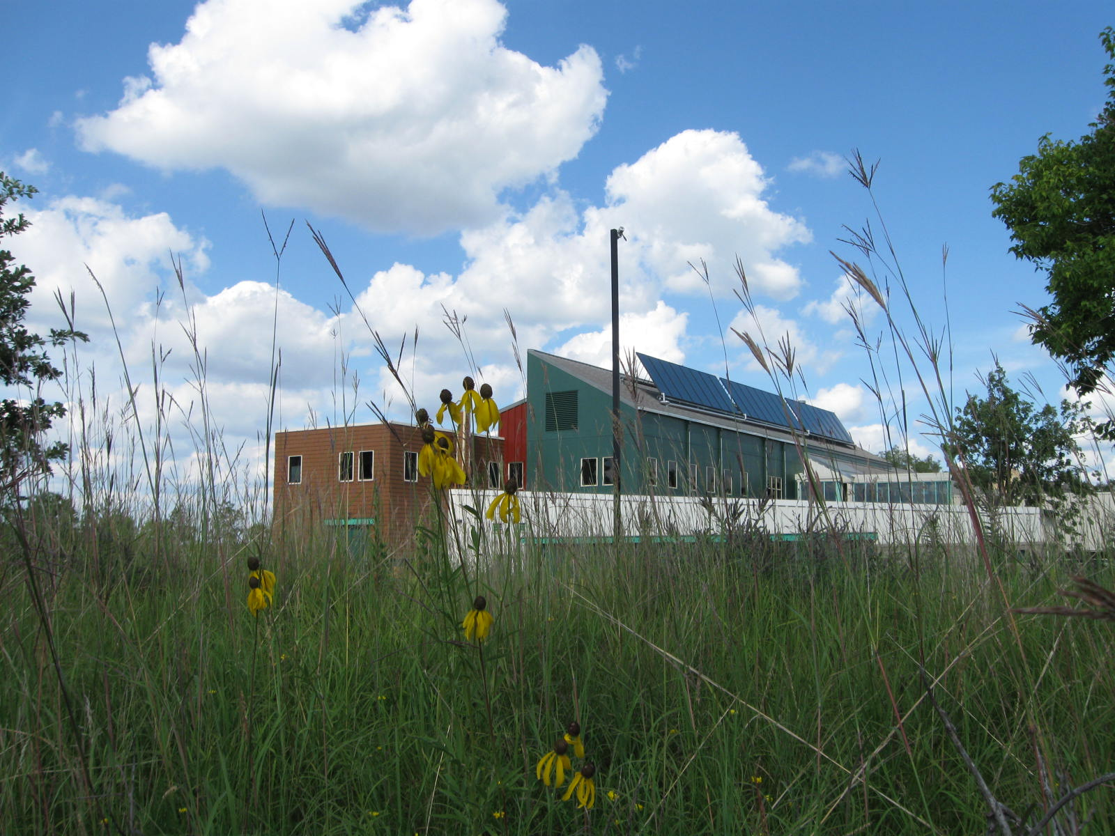 Bloomington Education and Visitor Center with the prairie in the foreground.